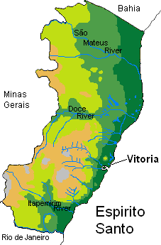 Map of Espirito Santo Geography